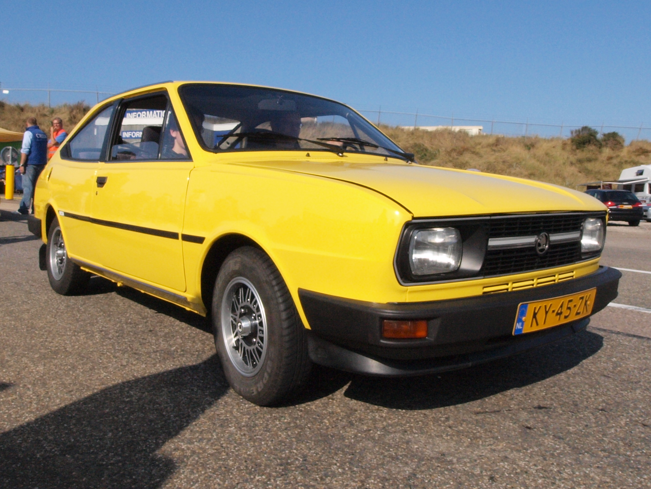 Photographed at the Nationaal Oldtimer Festival Zandvoort 2009, The Netherlands. OLYMPUS DIGITAL CAMERA